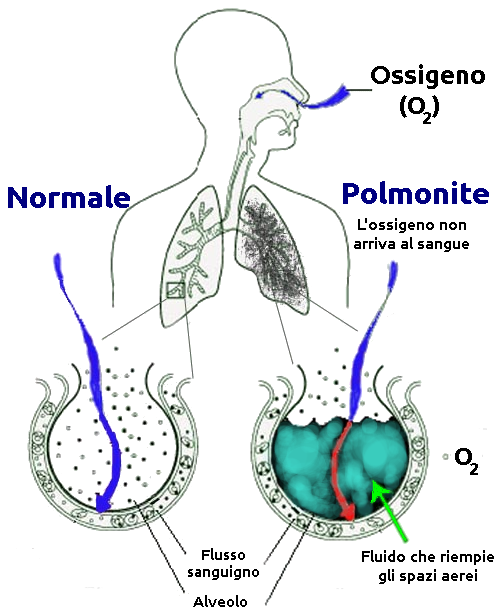 Italian version of [New Pneumonia cartoon.png]